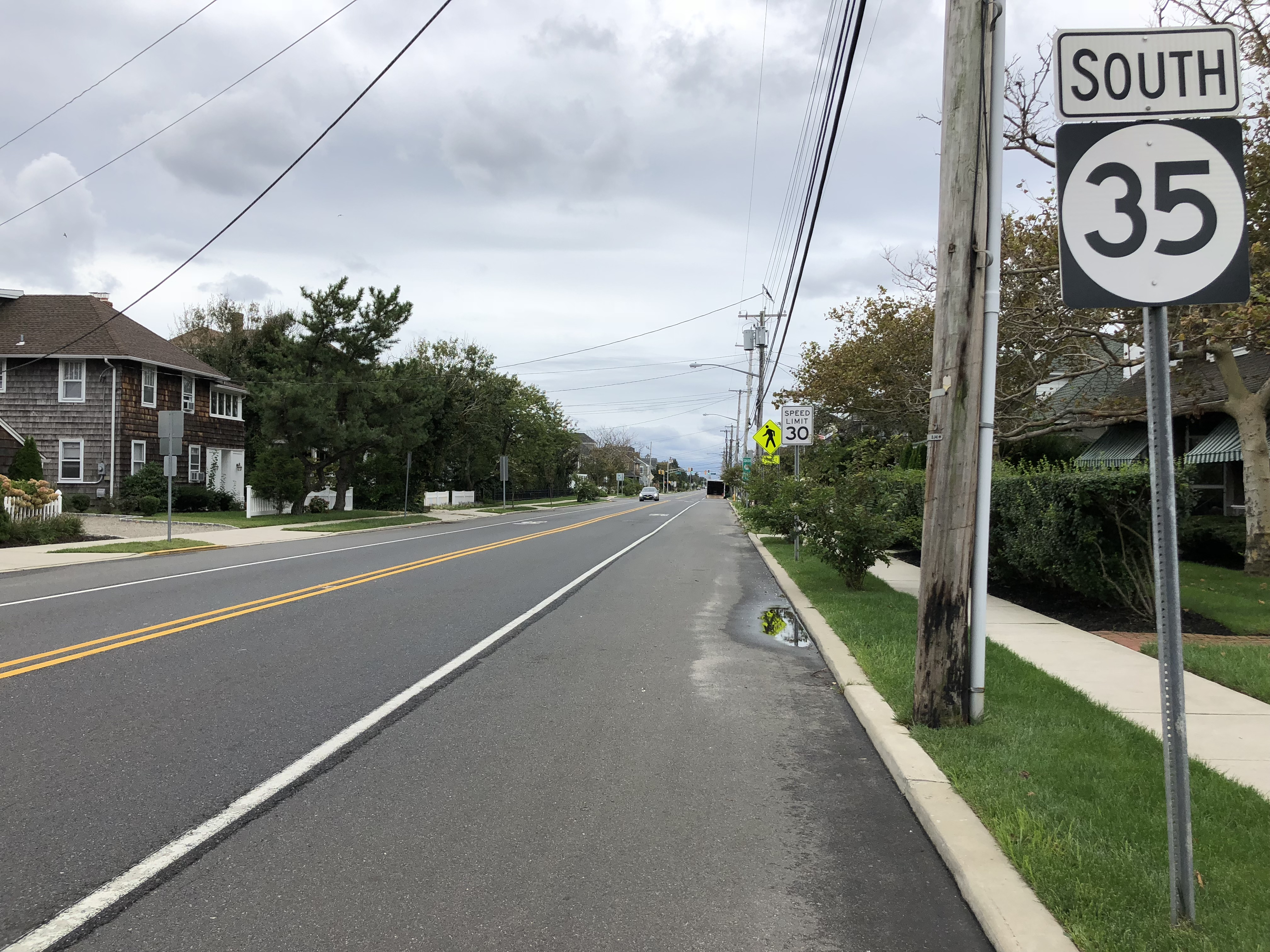 View south along New Jersey State Route 35 (Main Avenue) just south of Ocean County Route 632 (Bridge Avenue) in Bay Head, Ocean County, New Jersey